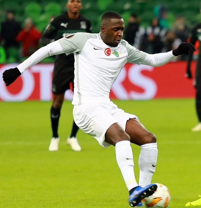 Abdoulwhaid Sissoko